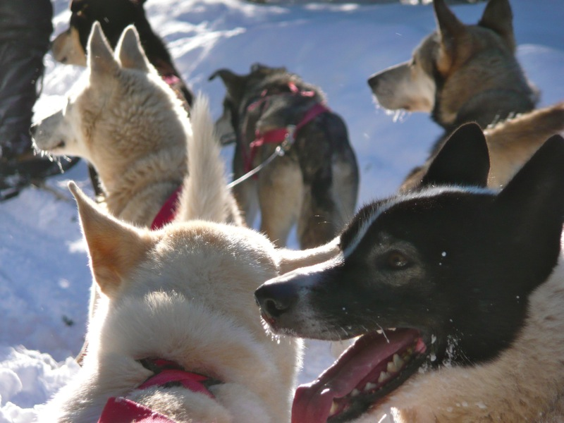 The following is the author's description of the photograph quoted directly from the photograph's Flickr page."Several distinct dog breeds are in common use as sled dogs, although any medium-sized breed may be used to pull a sled. Purebred sled dog breeds range from the well-known Siberian Husky and Alaskan Malamute to rarer breeds such as the Mackenzie River Husky or the Canadian Eskimo Dog (Canadian Inuit Dog). Dog drivers, however, have a long history of using other breeds or crossbreds as sled dogs. In the days of the Gold Rush in The Yukon, mongrel teams were the rule, but there were also teams of Foxhounds and Staghounds. Today the unregistered hybridized Alaskan husky is preferred for dogsled racing, along with a variety of crossbreds, the German Shorthaired Pointer often being chosen as the basis for crossbreeding. From 1988 through 1991, a team of Standard Poodles competed in the Iditarod Trail Sled Dog "